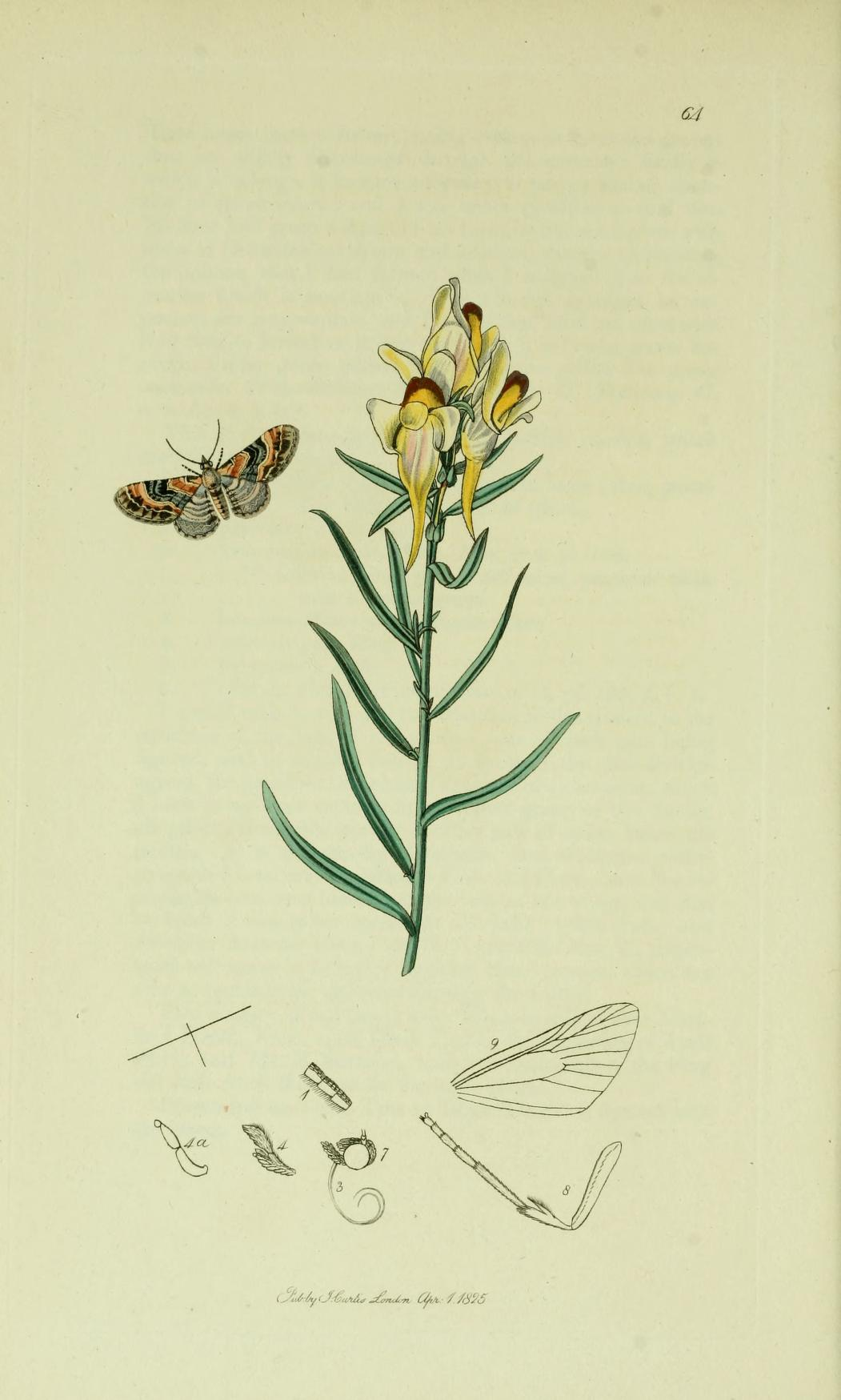 An illustration from British Entomology by John Curtis. Lepidoptera: Eupithecia linariata (Toaflax Pug).